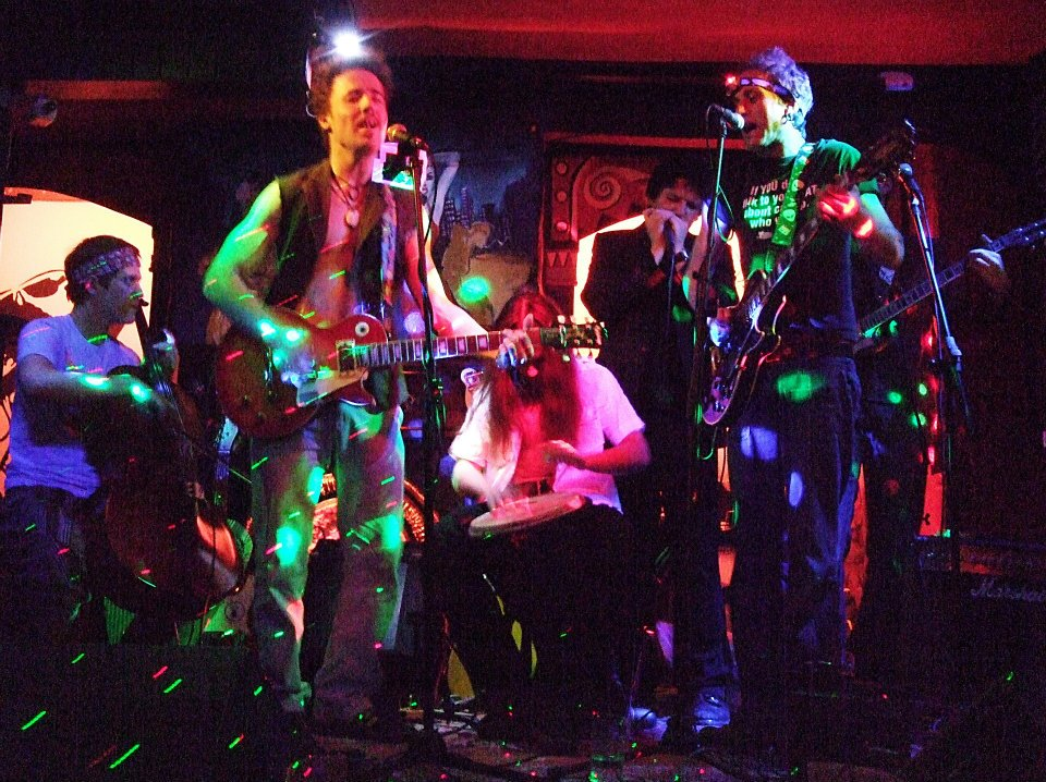 Ever The Animal playing live at Cellar Bar in Bournemouth, UK, April 2012